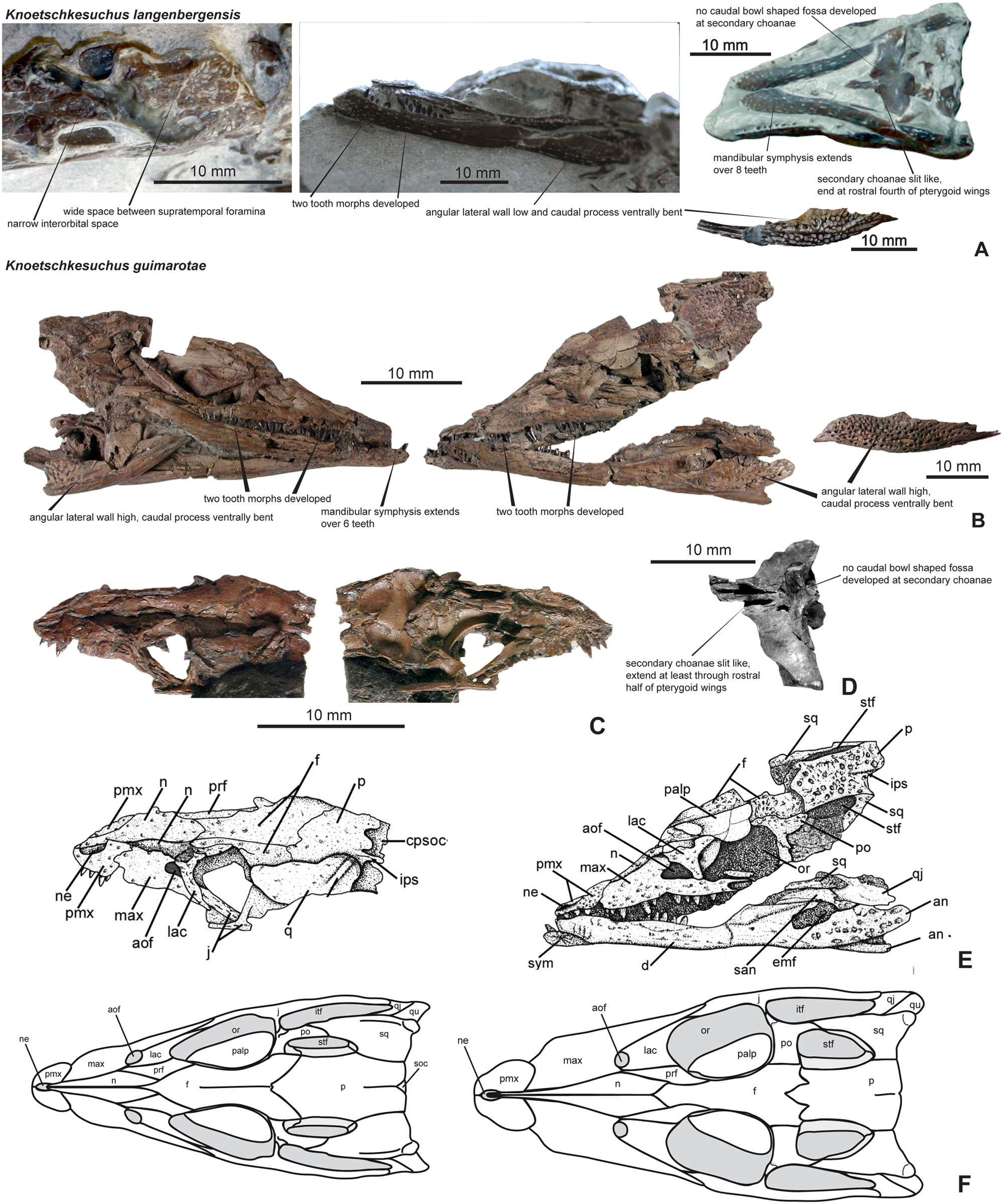 Fig 10. Anatomical comparisons between Knoetschkesuchus langenbergensis gen. nov. sp. nov. and Knoetschkesuchus guimarotae (new combination). (A) Some diagnostic cranial elements of Knoetschkesuchus langenbergensis gen. nov. sp. nov. with important characters denoted, from left to right: skull DFMMh/FV 200 in dorsal and left lateral aspect, skull DFMMh/FV 605 in ventral aspect, and left angular DFMMh/FV 261 in lateral aspect. (B) Holotype skull IFPUB Gui Croc 7308–1 and isolated angular IPFUB Gui Croc 8044 of Knoetschkesuchus guimarotae new combination, with important characters denoted. (C) Juvenile skull IFPUB Gui Croc 7309 of Knoetschkesuchus guimarotae new combination. (D) Isolated pterygoid IPFUB Gui Croc 7501 of Knoetschkesuchus guimarotae new combination, in ventral aspect and with important characters denoted. (E) Interpretative drawings of skulls IFPUB Gui Croc 7309 (left) and IFPUB Gui Croc 7308–1 (right) of Knoetschkesuchus guimarotae new combination, from Schwarz & Salisbury [IFPUB Gui Croc 7309, 61: Fig. 2]. (F). Reconstructions of skulls DFMMh/FV 605 (left) and DFMMh/FV 200 (right) of Knoetschkesuchus langenbergensis gen. nov. sp. nov. for comparison with similar ontogenetic stages of Knoetschkesuchus guimarotae new combination as visible in (E). Note in particular the similarities in shape changes of the lacrimal and postorbital, and the proportional changes in the cranial table. All photographs of Knoetschkesuchus guimarotae are courtesy of DS and have been published in Schwarz & Salisbury [IFPUB Gui Croc 7309, 61: Fig. 2]. For anatomical abbreviations, see text.